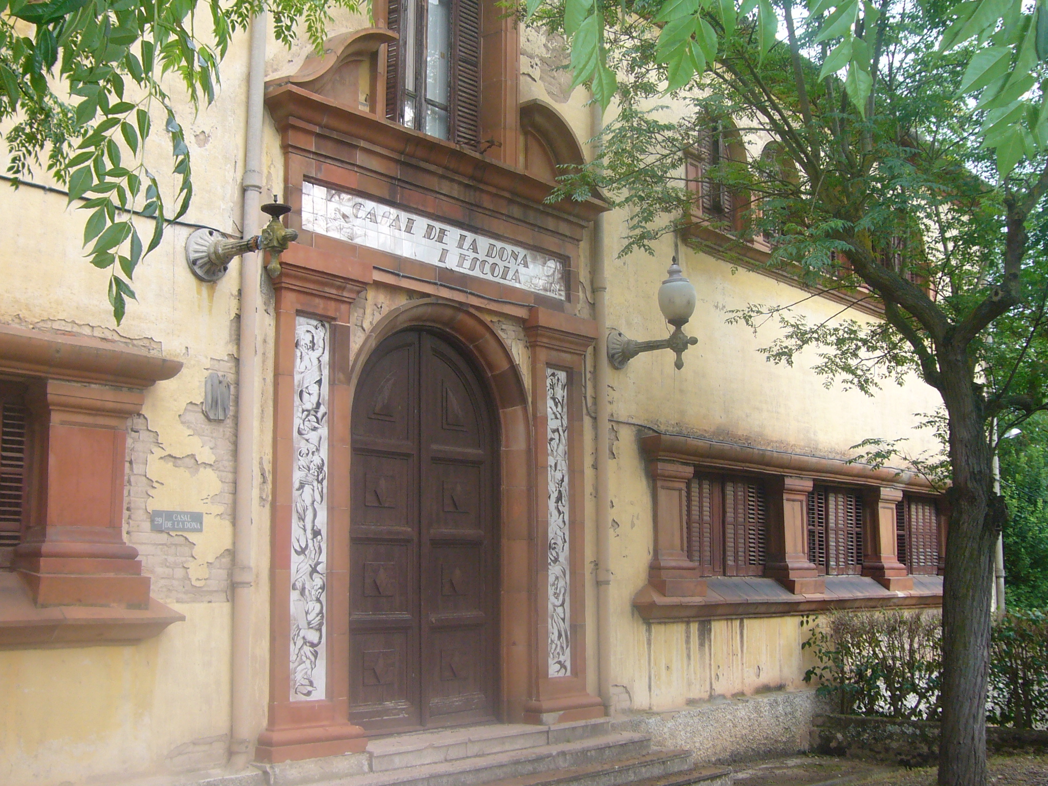 Casal de la dona (women's house) Colonia Vidal , Puig-reig, Catalonia